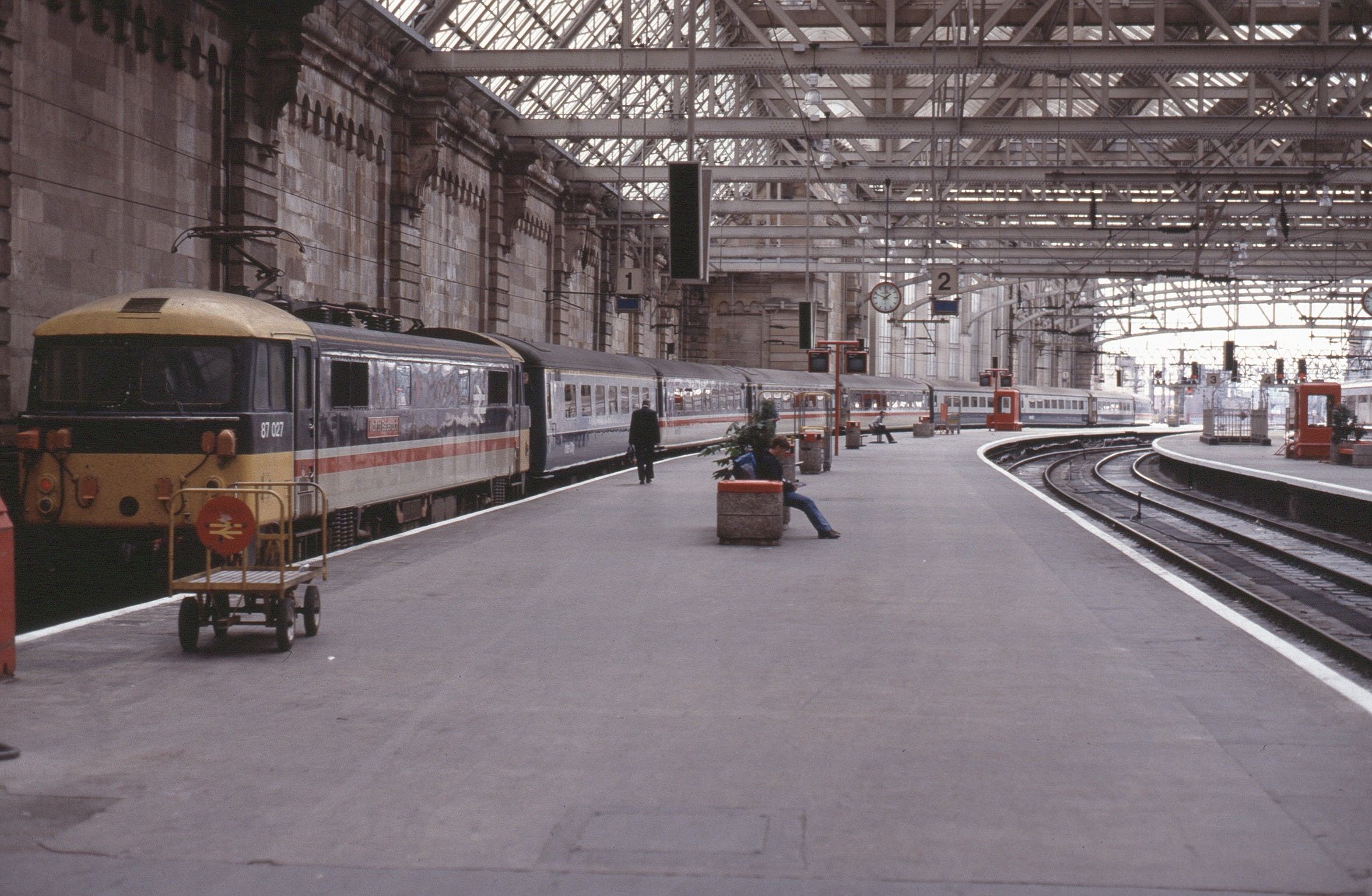 A British Rail Class 87 at Glasgow Central railway station in 1989.